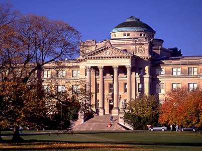 Beardshear Hall in Fall